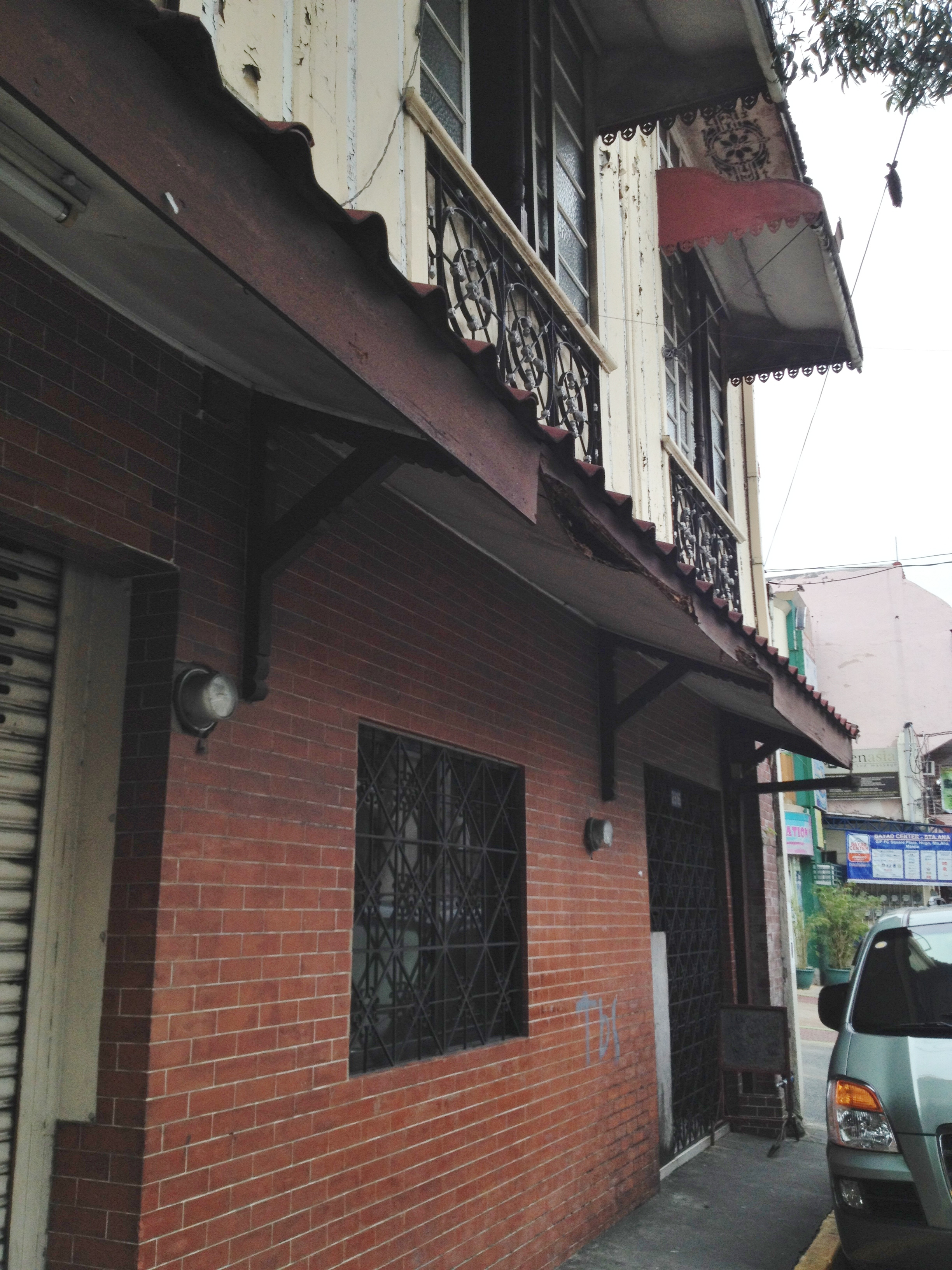 Dela Merced House 2 Sta. Ana, Manila